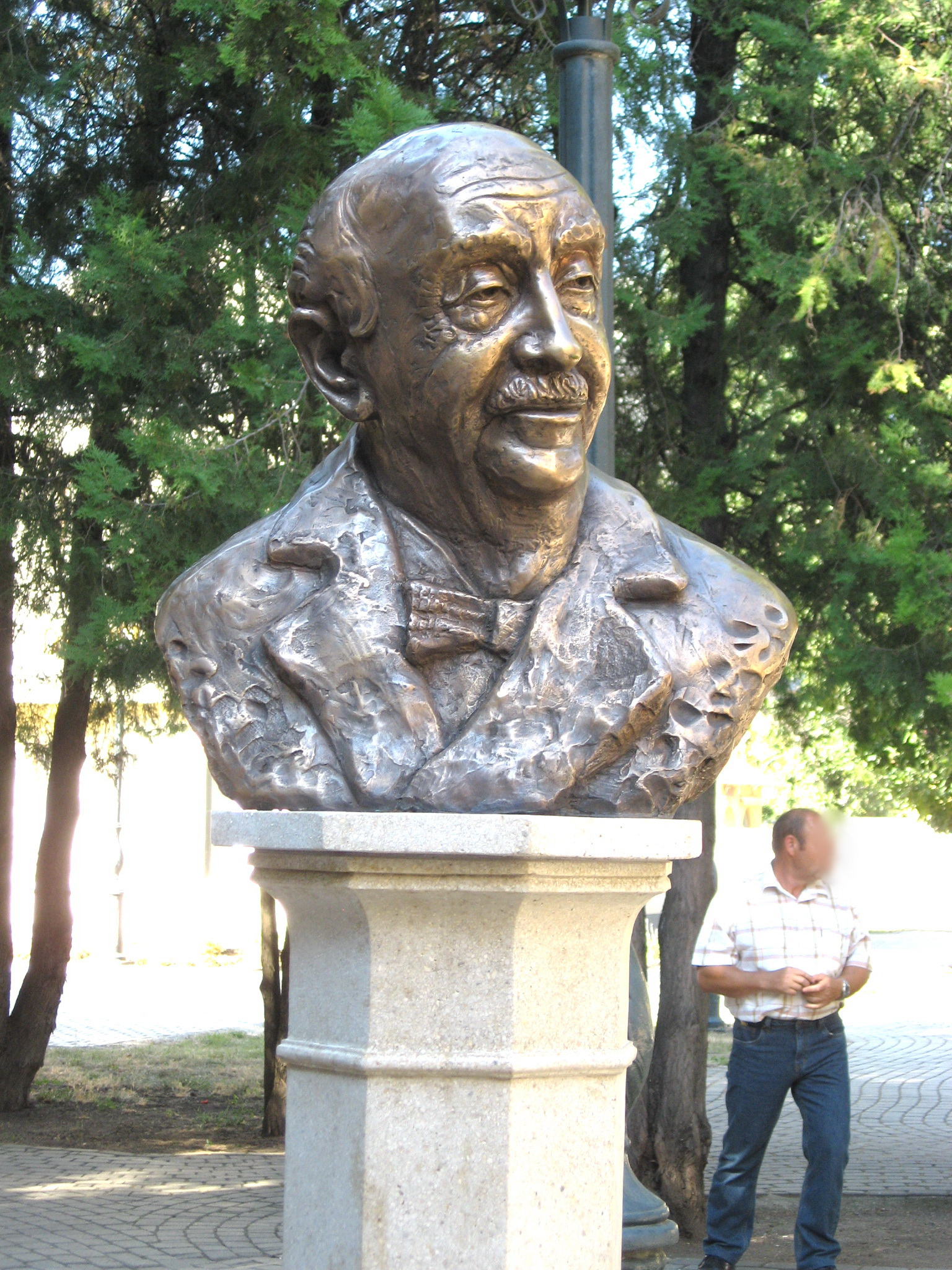 Melchior Lengyel's bust in Balmazújváros (Hungary)